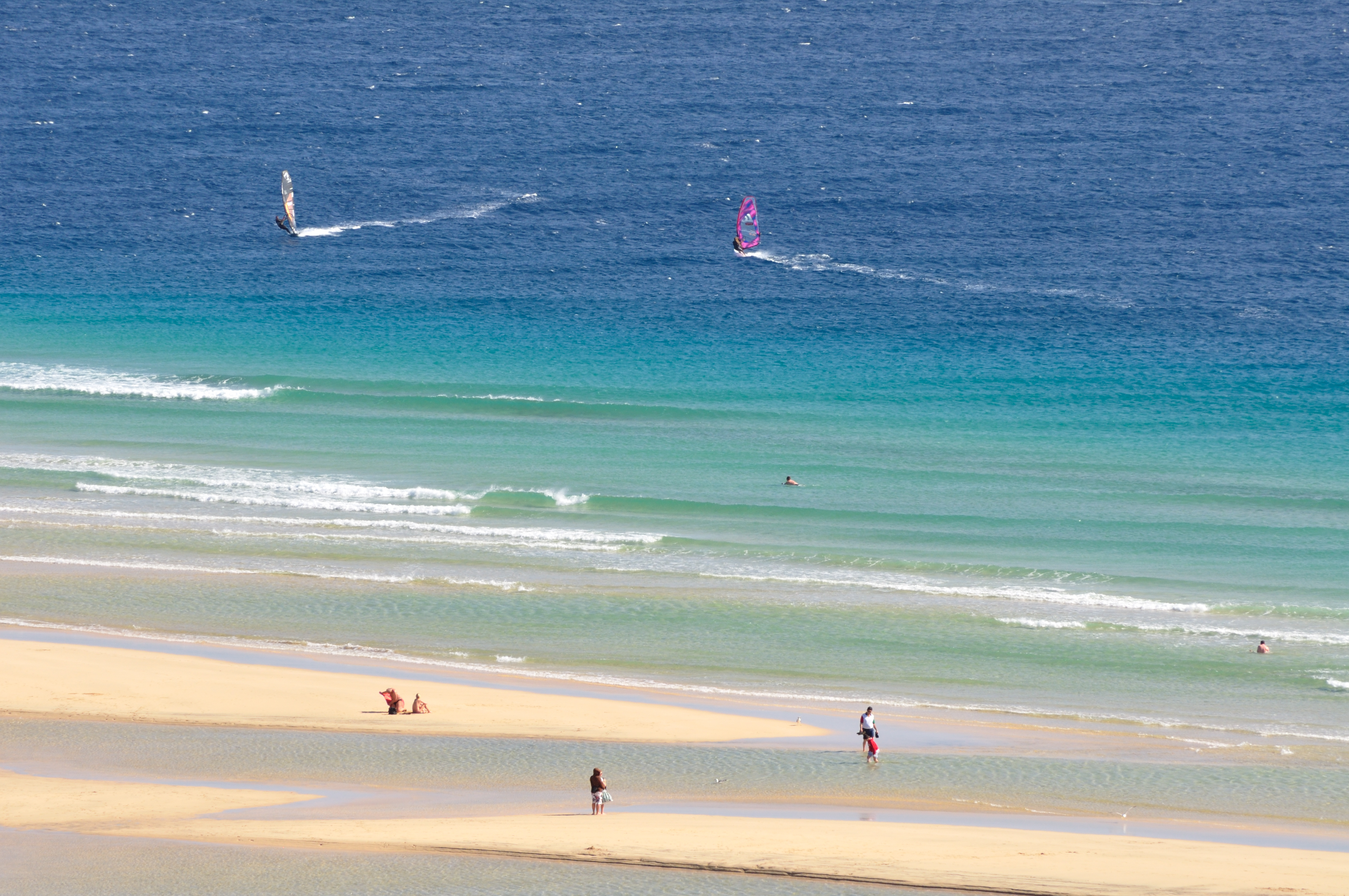 Spain, beaches of Fuerteventura